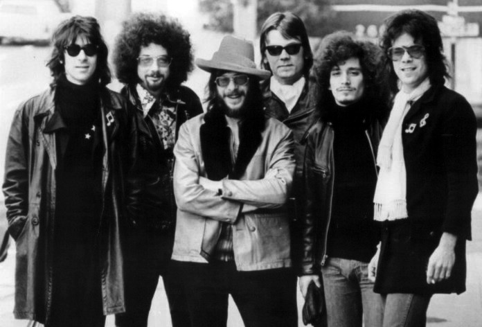 Publicity photo of the J. Geils Band.